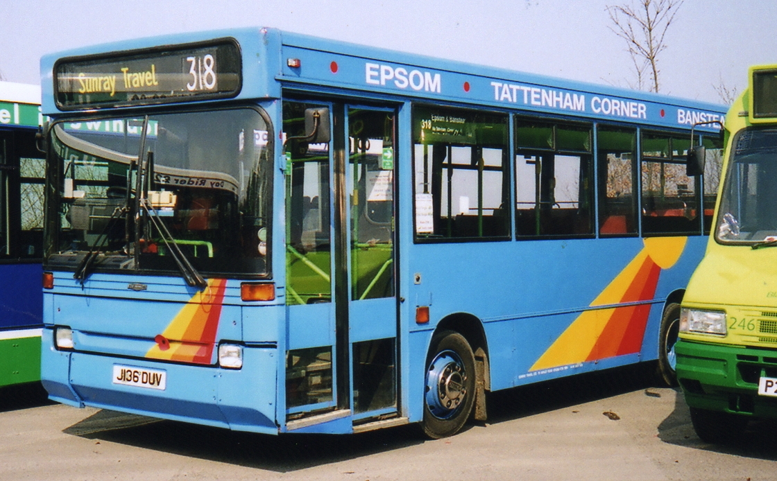 Sunray Travel J136 DUV, a Plaxton Pointer, at the 2007 Cobham bus rally, which was held at Longcross test track on 1 April 2007. The bus was dedicated to route 318 at the time it was seen, and carried route branding for the service.